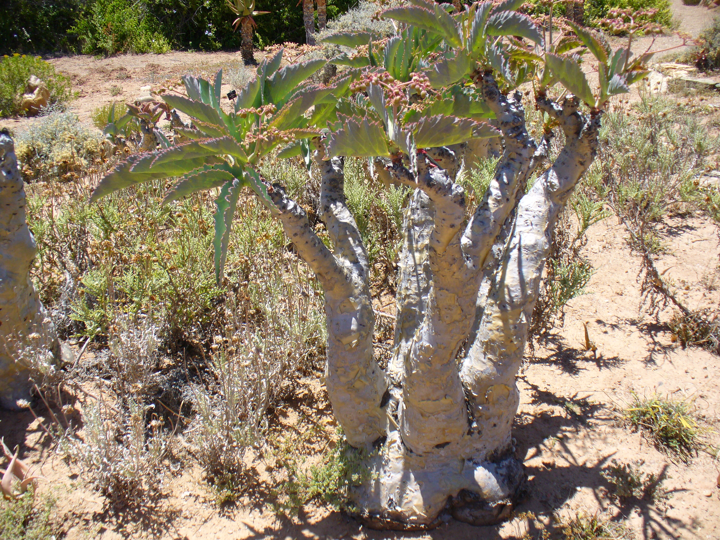 Wild grape